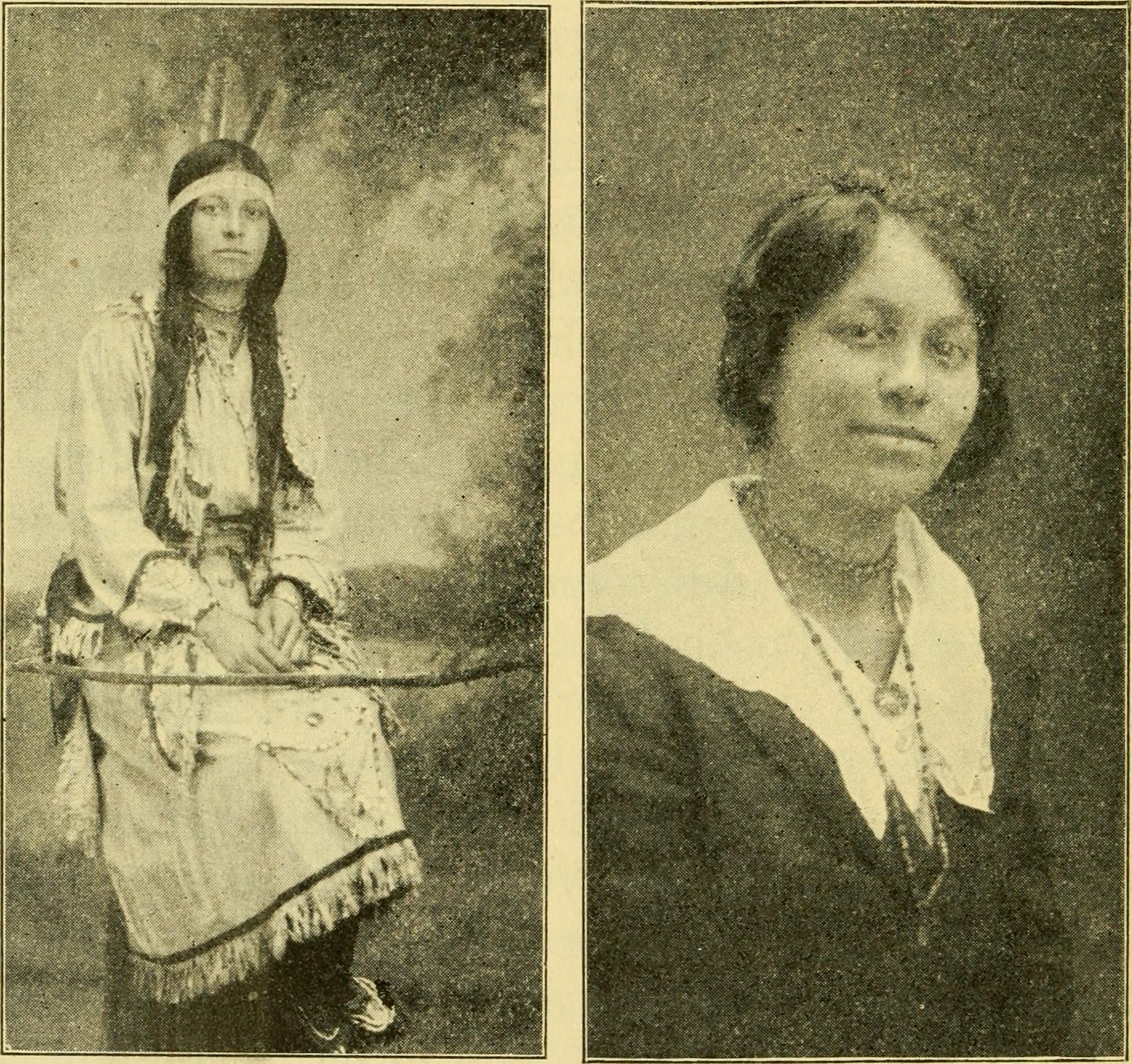 Title: A history of Virginia for boys and girls Year: 1920 (1920s) Authors: Wayland, John Walter, 1872-1962 Subjects: Publisher: New York, The Macmillan Company Text Appearing Before Image: ^ ? Text Appearing After Image: two PICTURES OF A PAMUNKEY INDIAN GIRL, NOW LIVING IN VIRGINIA. SHEIS THE chiefs DAUGHTER, AND SHE HAS A SISTER POCAHONTAS A few still survive. Among the many tribesthat the white men found here were the Pamun-keys. The Pamunkey River is a tributary of theYork. Powhatan, it is said, was of the Pamun- POCAHONTAS AND HER PEOPLE 3S key tribe. A small number, a hundred or more,of the Pamunkeys still remain. They live on areservation of 800 acres of land at Lester Manor,between Richmond and West Point. They liveand dress now much like other Virginians. Theyhave a school and a church of their own. Theyhave their farms, gardens, and orchards ; but theystill do a good deal of hunting and fishing. Theystill have their own chief; and one of the chiefsdaughters has been kind enough to allow herpicture to be made for this book. She has a sisterPocahontas. The Pamunkeys pay no regular taxes to thestate, but for many years it has been the customof their chief to carry a basket of fish or gameto Ric